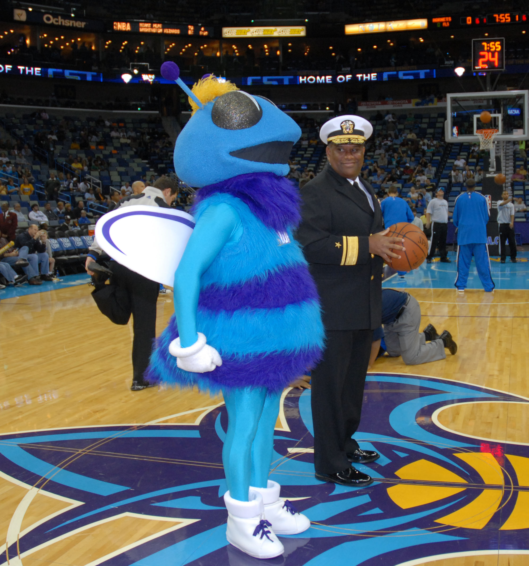 NEW ORLEANS (Nov. 4, 2009) Rear Adm. Victor G. Guillory, commander of U.S. Naval Forces Southern Command and U.S. 4th Fleet, watches the mascot for the New Orleans Hornets stand at attention during Navy Night at the New Orleans Arena. Guillory is a native of New Orleans. Navy Night was one of several New Orleans Navy Week events. Navy Weeks are designed to show Americans the investment they have made in their Navy and increase awareness in cities that do not have a significant Navy presence. (U.S. Navy photo by Mass Communication Specialist 1st Class Michelle Burnside/Released)